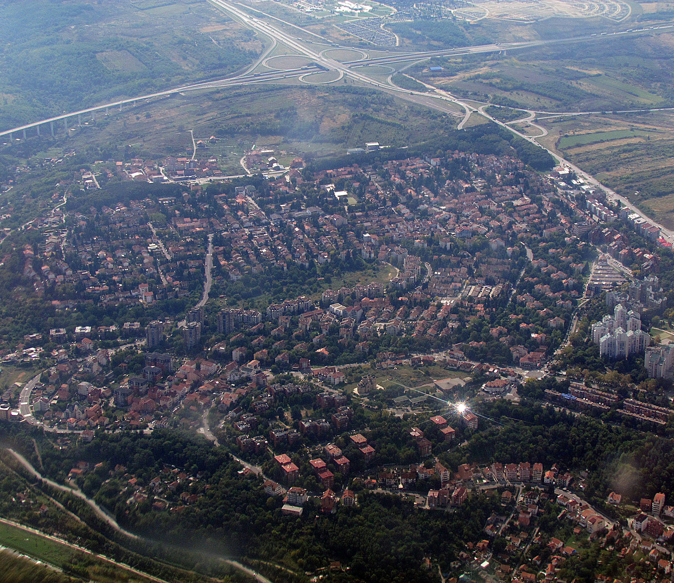 Petlovo brdo, suburb of Belgrade